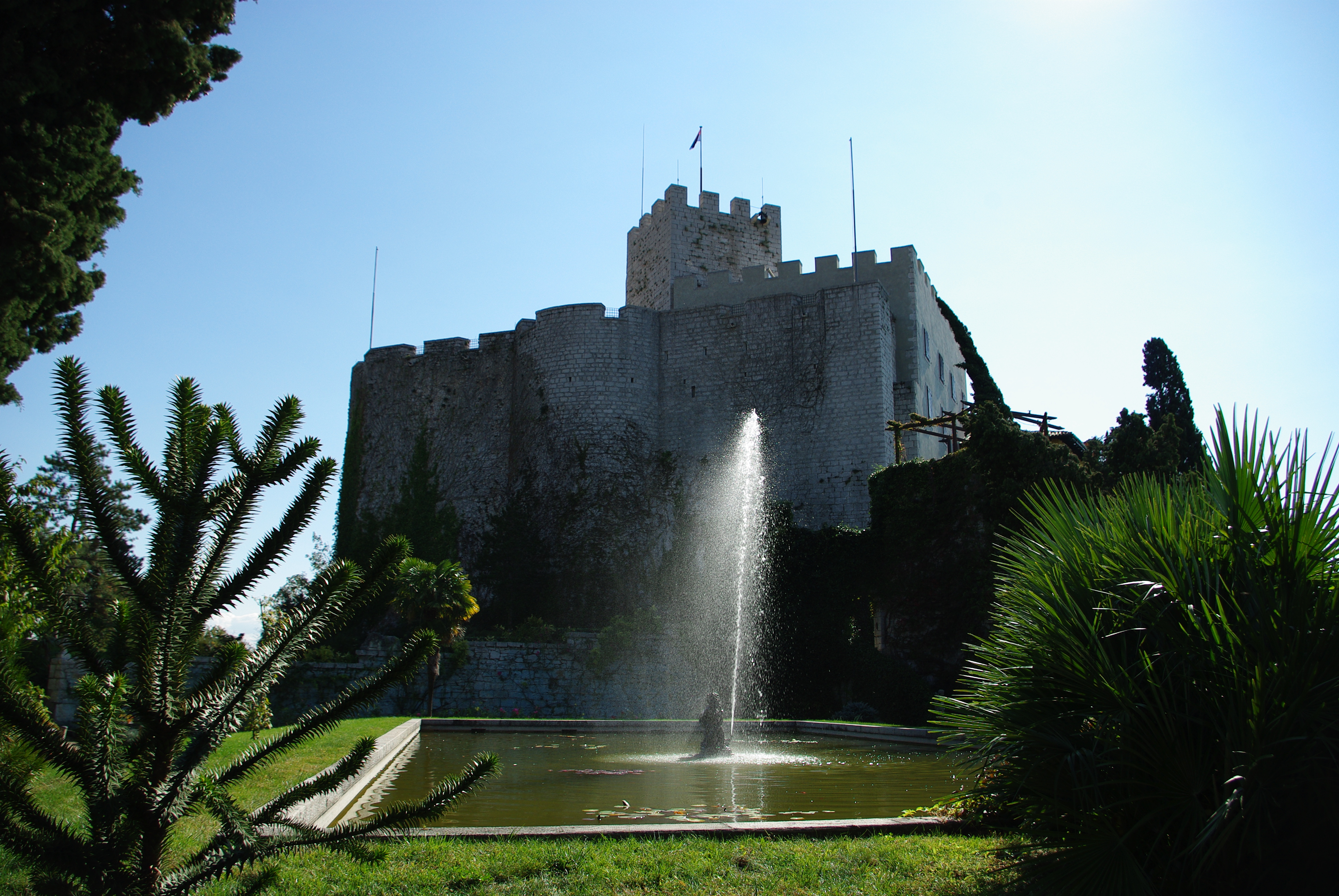 Fountain and castle Duino, Trieste, Italy.